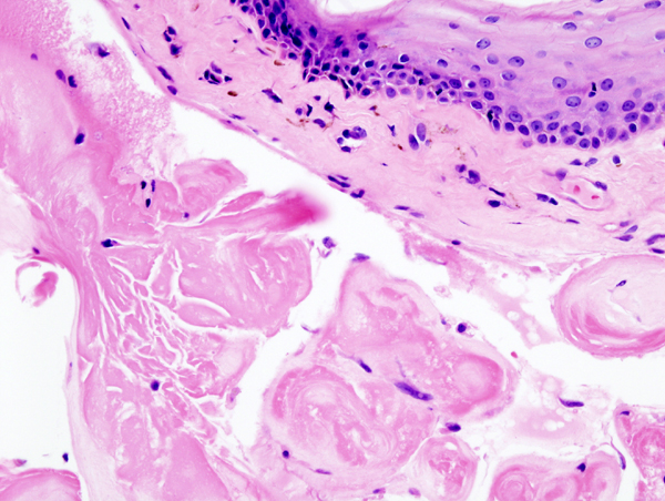 Histopathologic image of vocal fold nodule or polyp. At higher magnification of submucosal fibrinoid degeneration. H & E stain.